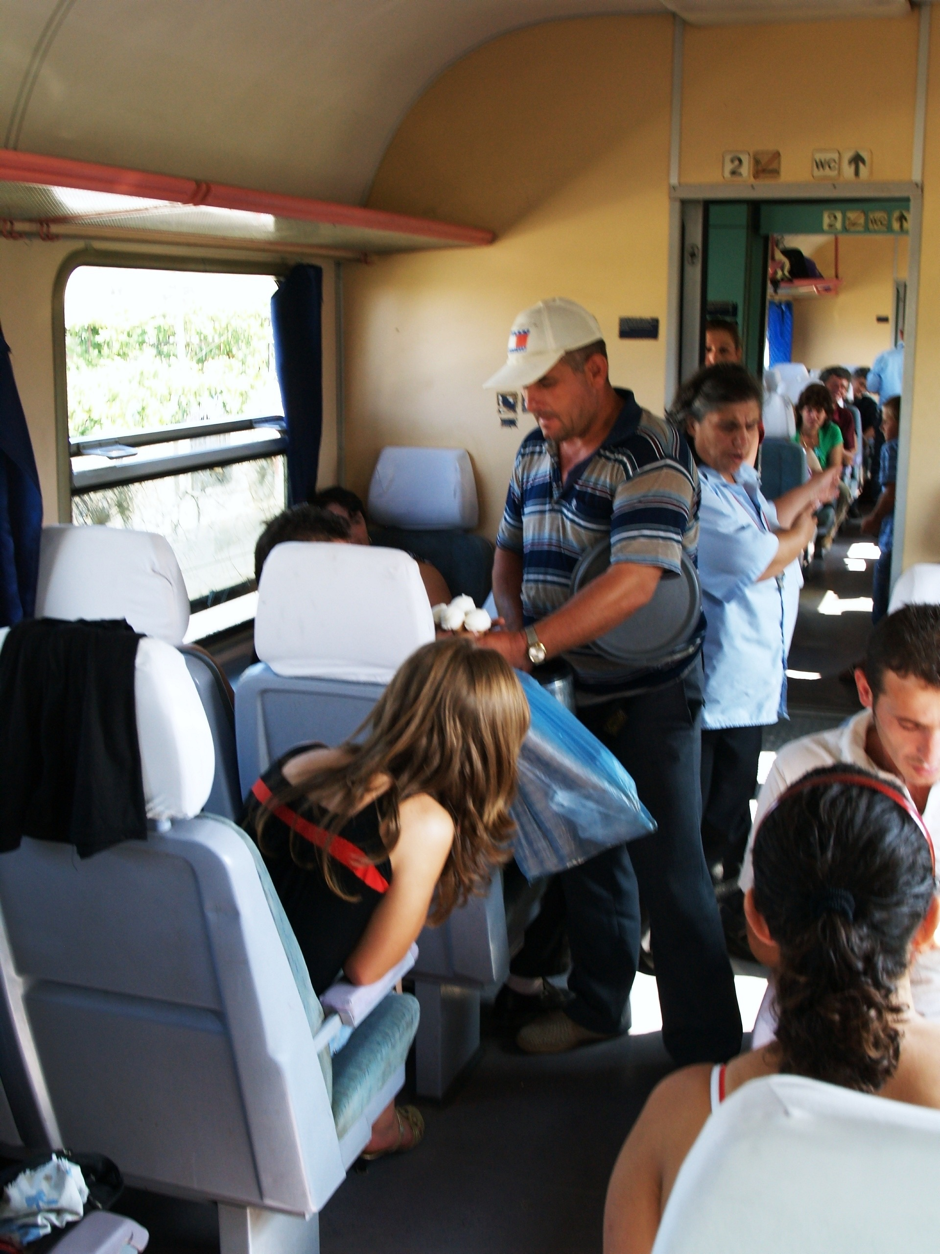 Ice cream sold on a typical Albanian train before Librazhd